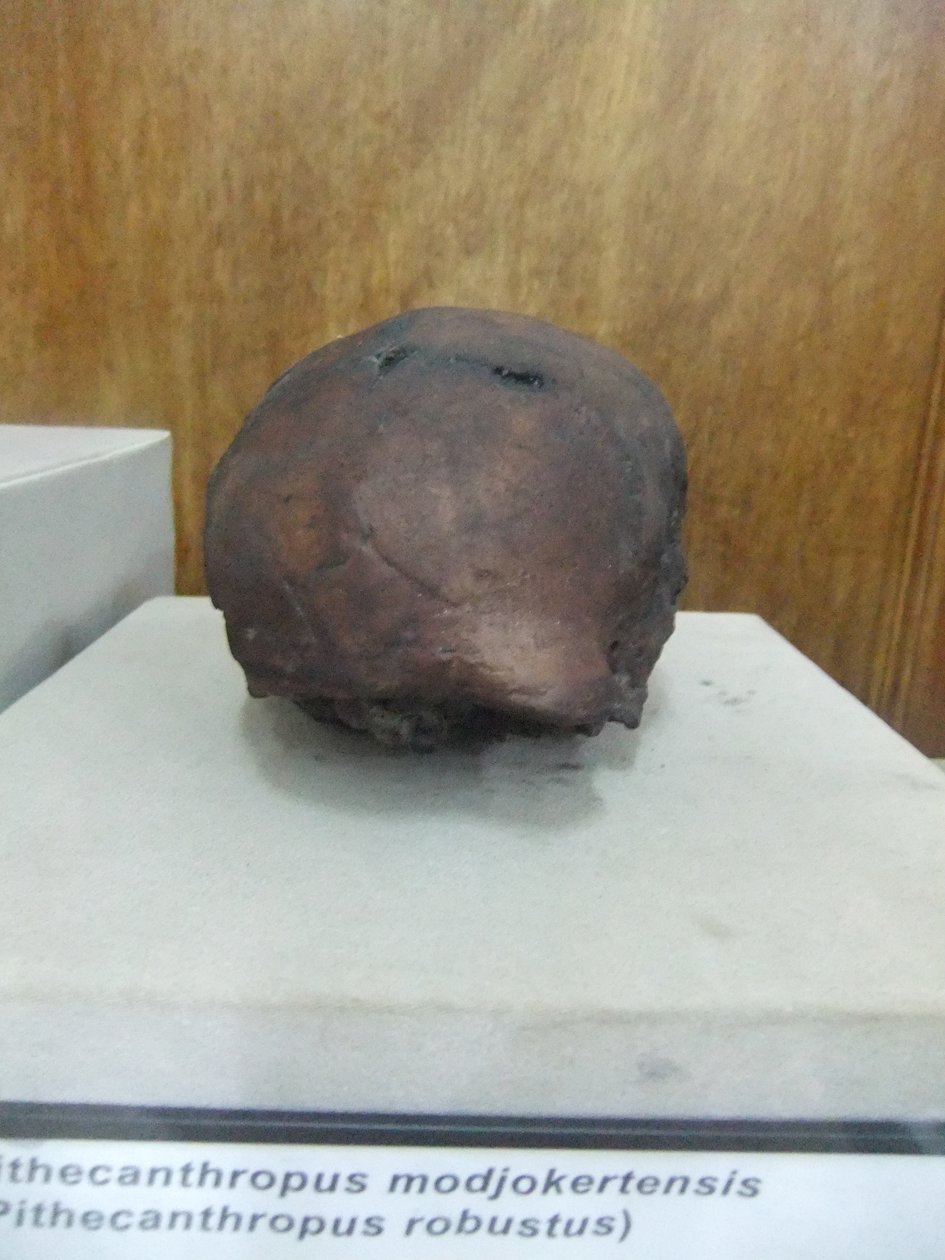 Pithecanthropus modjokertensis, Sangiran Museum, Sragen, Indonesia